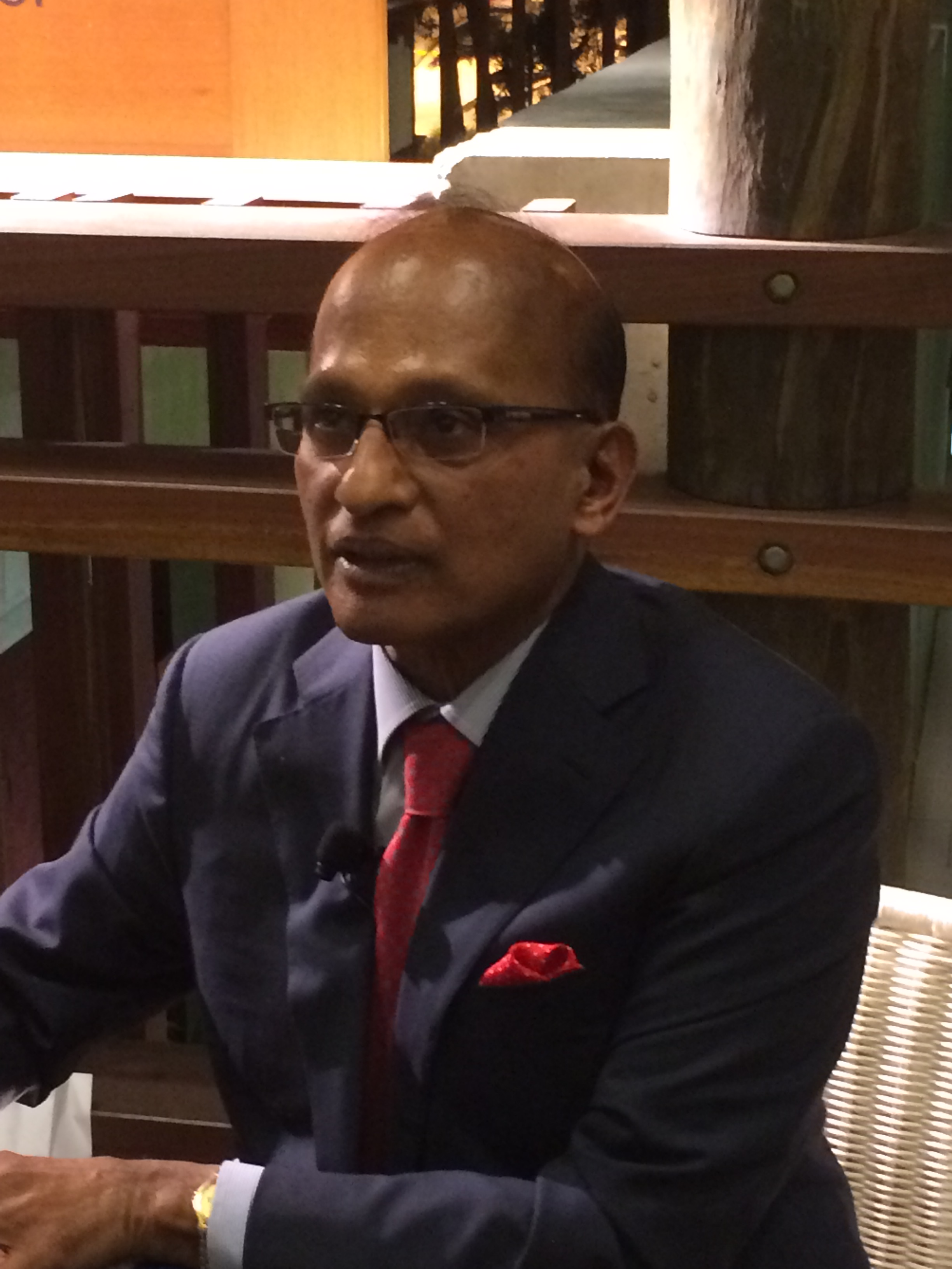 Maha Sinnathamby at State Library of Queensland, 27 August 2015